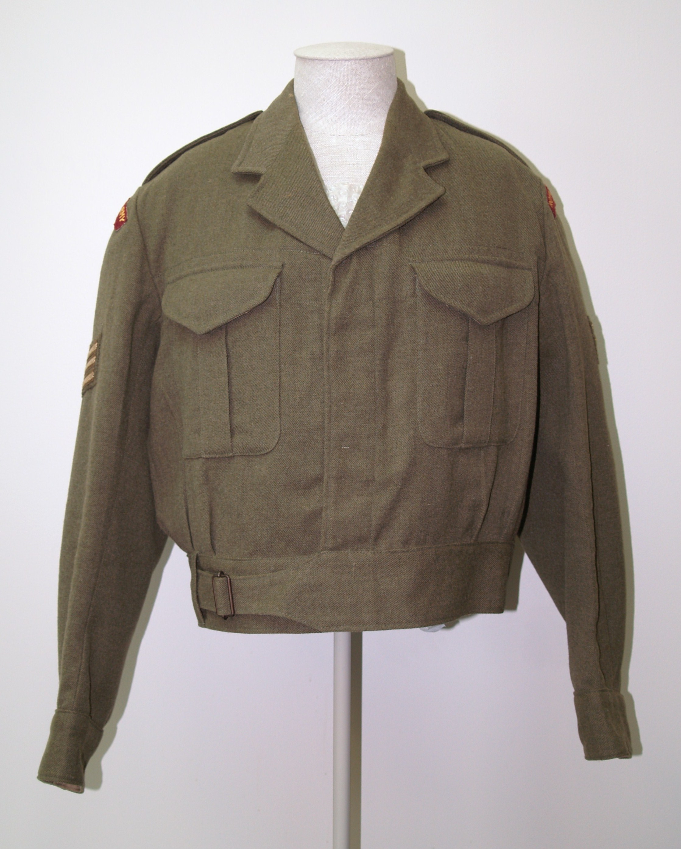 Battledress jacket - NCO - Royal New Zealand Army Medical Corps - 1959-61 Belonged to Sgt. Colin Whyte, Royal New Zealand Medical Corps, and worn in Malaya 1959-1961 khaki woollen cloth; waisted with belt buckle at side; patch pockets with box pleat and 3-point flap; with Royal NZ Army Medical Corps shoulder titles in old gold on dull cherry cloth, and Sergeants stripes on sleeves markings- maker's label- SIZE 18 - Height- 6ft. 1in. - 6ft. 2in. - chest- 43in. - 44in. - THE LANE MFG. - Co. Ltd. - GISBORNE - 1958 - QUALITY MADE